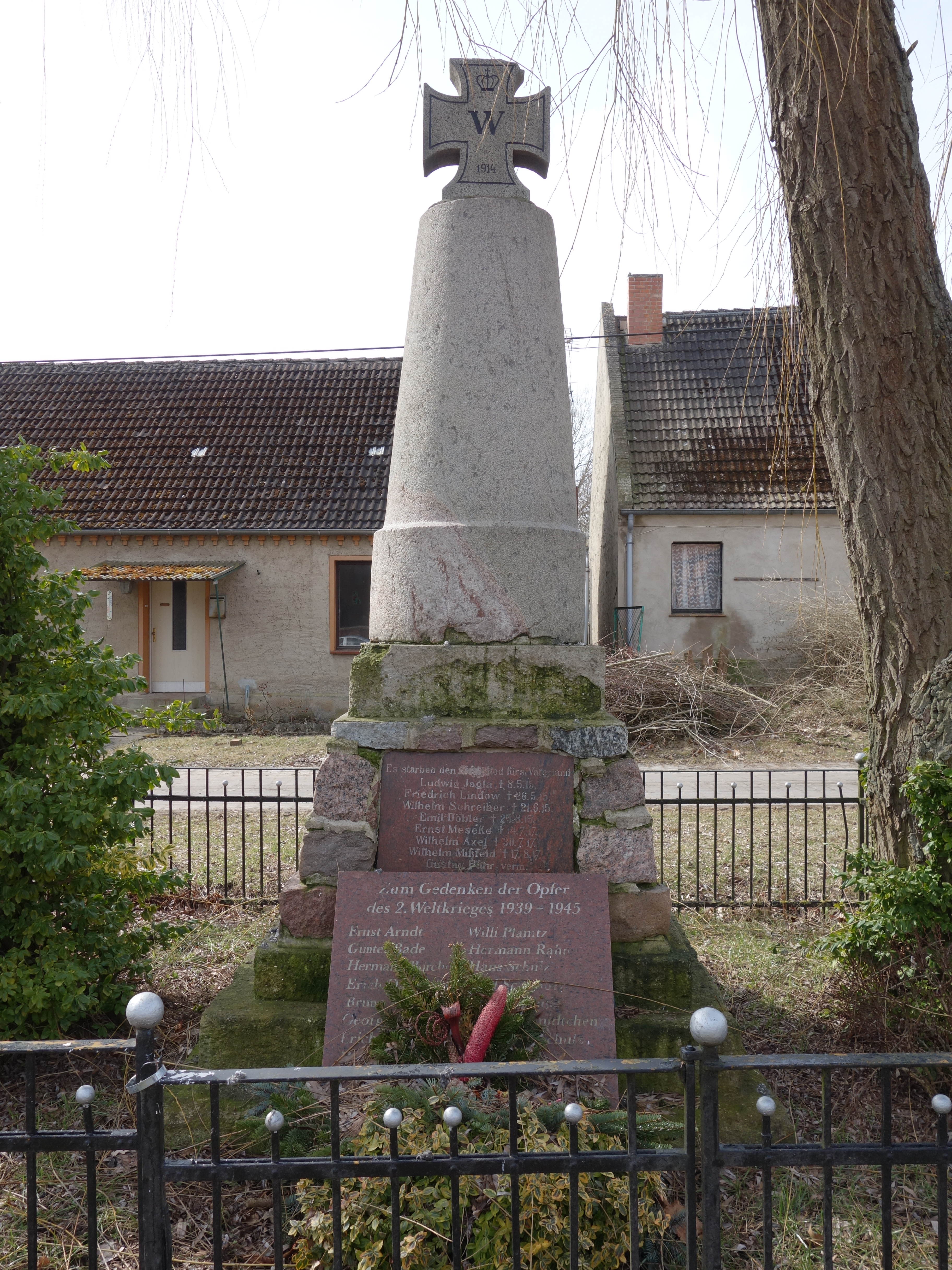 War memorial in Ellingen, Prenzlau municipality, Uckermark district, Brandenburg state, Germany